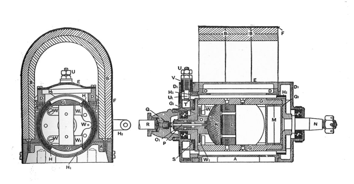 Aster ignition magneto, section (Rankin Kennedy, Electrical Installations, Vol II, 1909).jpg